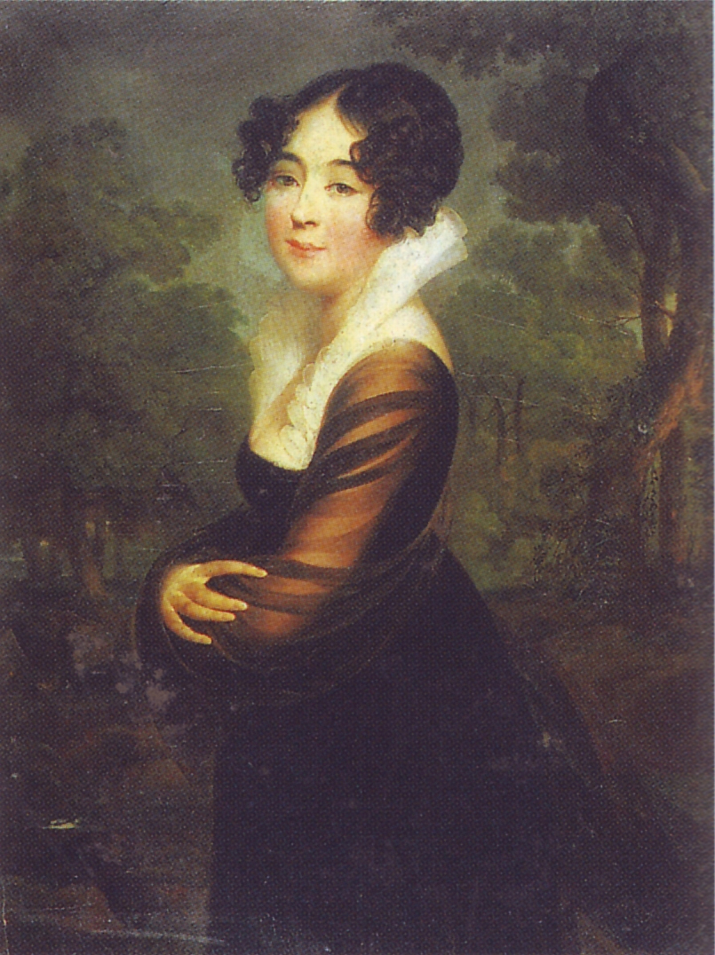 Portrait of Ekaterina Petrovna Gagarin